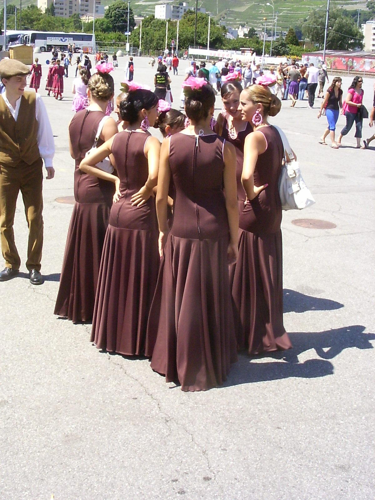 Europeade Martigny (ch) 2008